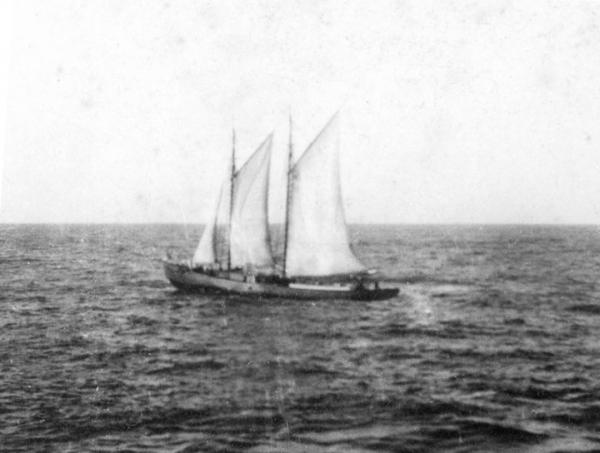 The Canadian ship I'm Alone, used to smuggle alcohol during the prohibition in America.